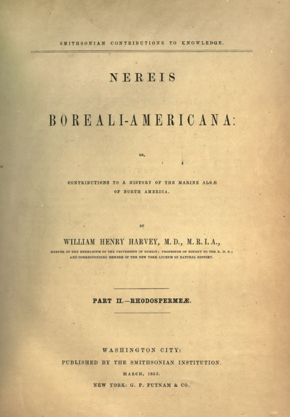 Couverture of Nereis Boraeli-Americana or Contributions to a History of the Marine Algæ of North America